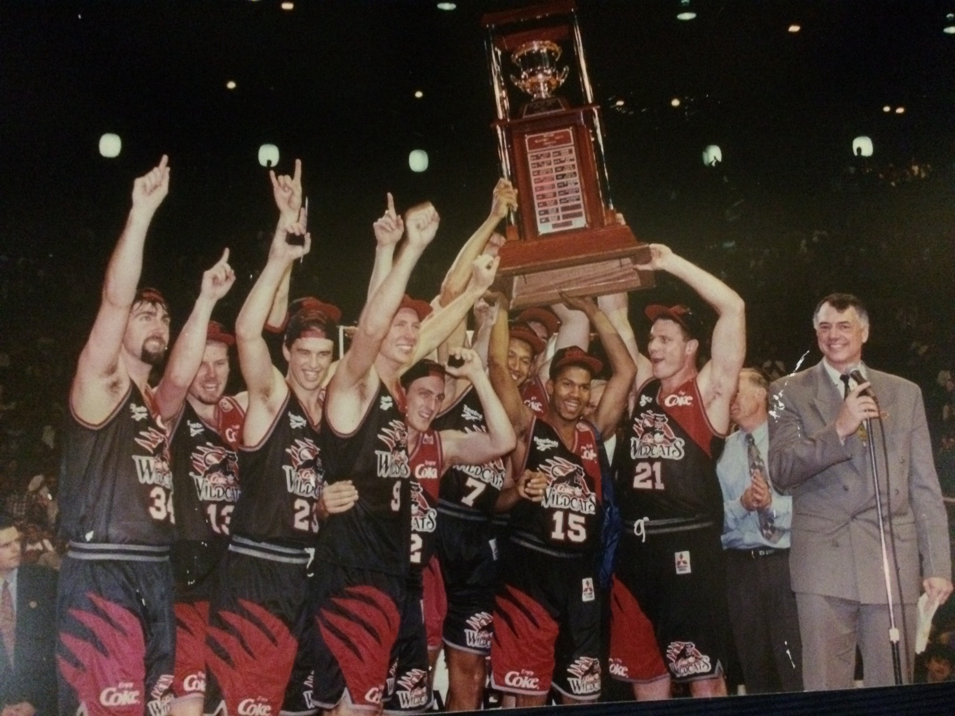 Picture of the 1995 Championship-winning Perth Wildcats